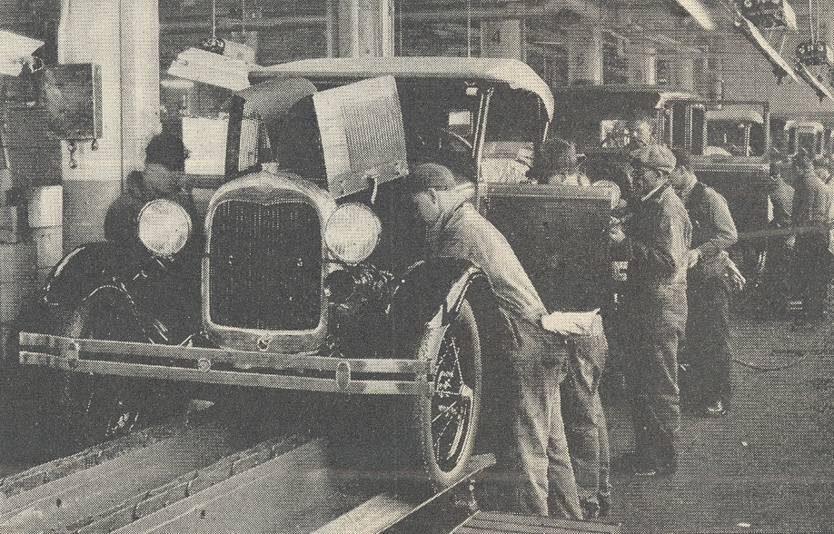 Literary Digest interview with Henry Ford